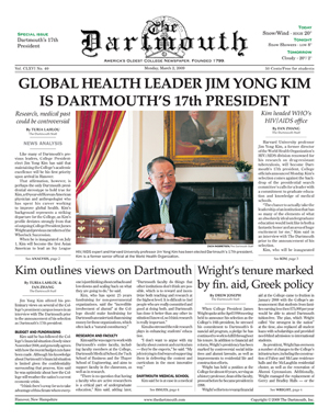 The Dartmouth broke the news of the selection of Dartmouth's 17th President, Global Health Leader Jim Yong Kim. This is the front page of the special edition published on March 2. The Dartmouth printed two separate issues that day, and released the issue breaking the news at 11:30am.